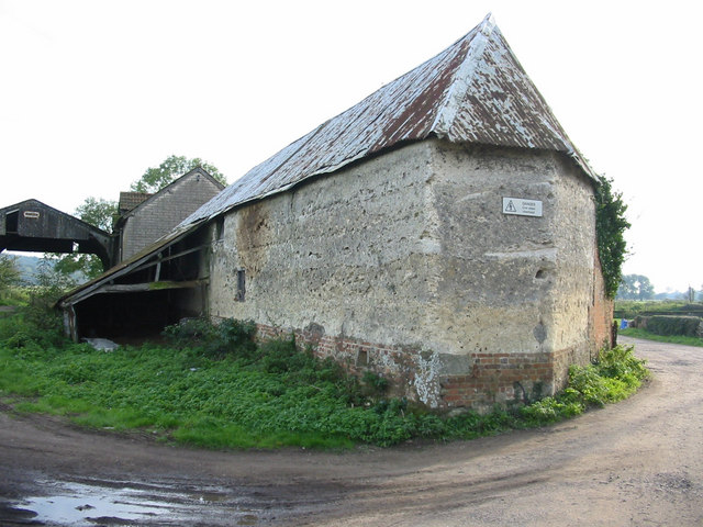 Old farm building The main walls are constructed from chalk cobb standing on brick. The left hand flank shows the shuttering marks as the wall is constructed in layers.